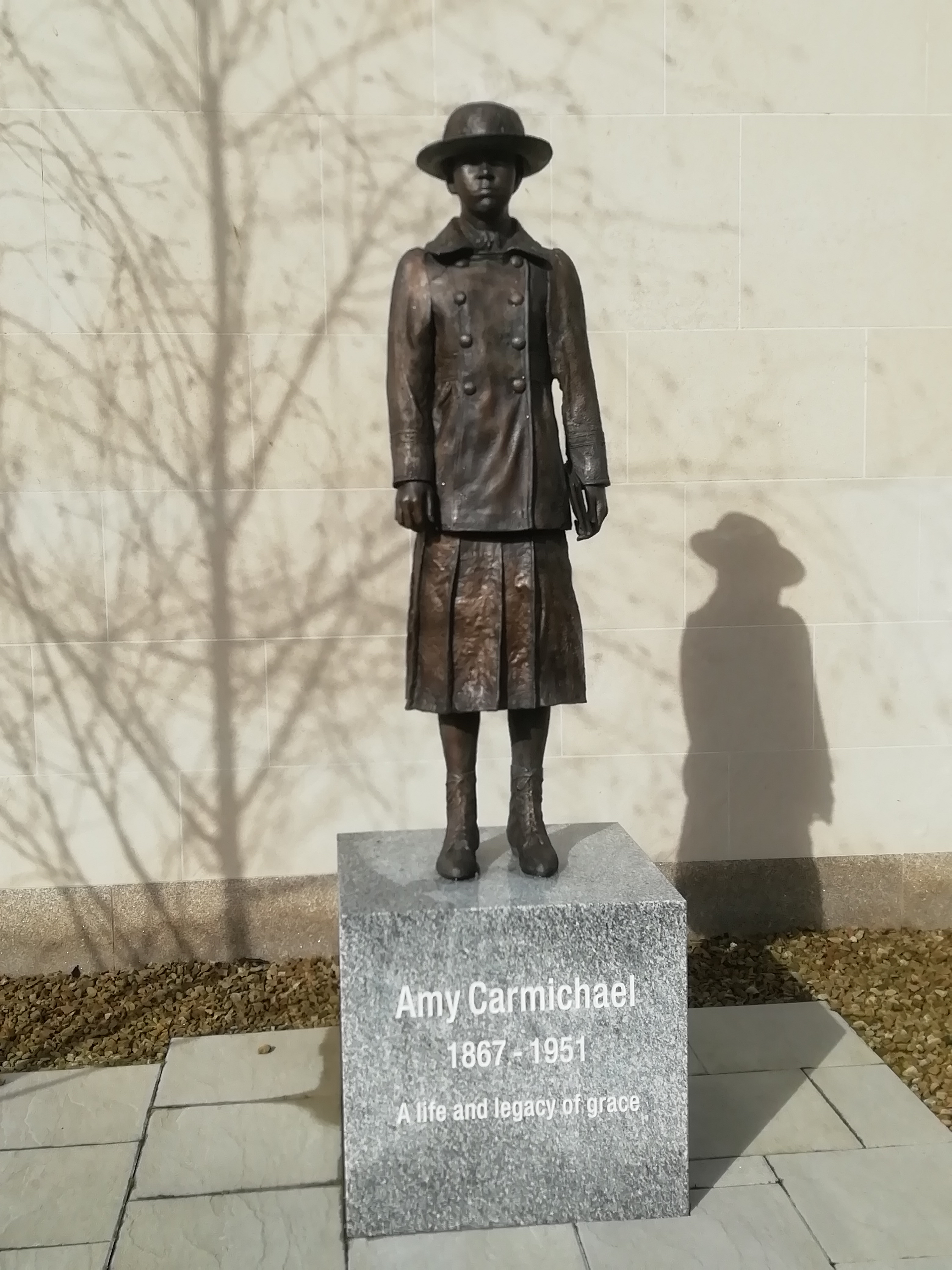 This is the bronze statue of Amy Carmichael as a young girl that stands in Hamilton Street in Bangor, County Down, Northern Ireland